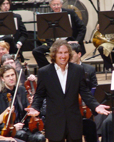 Nick Palance in concert. Daytona Beach, FL